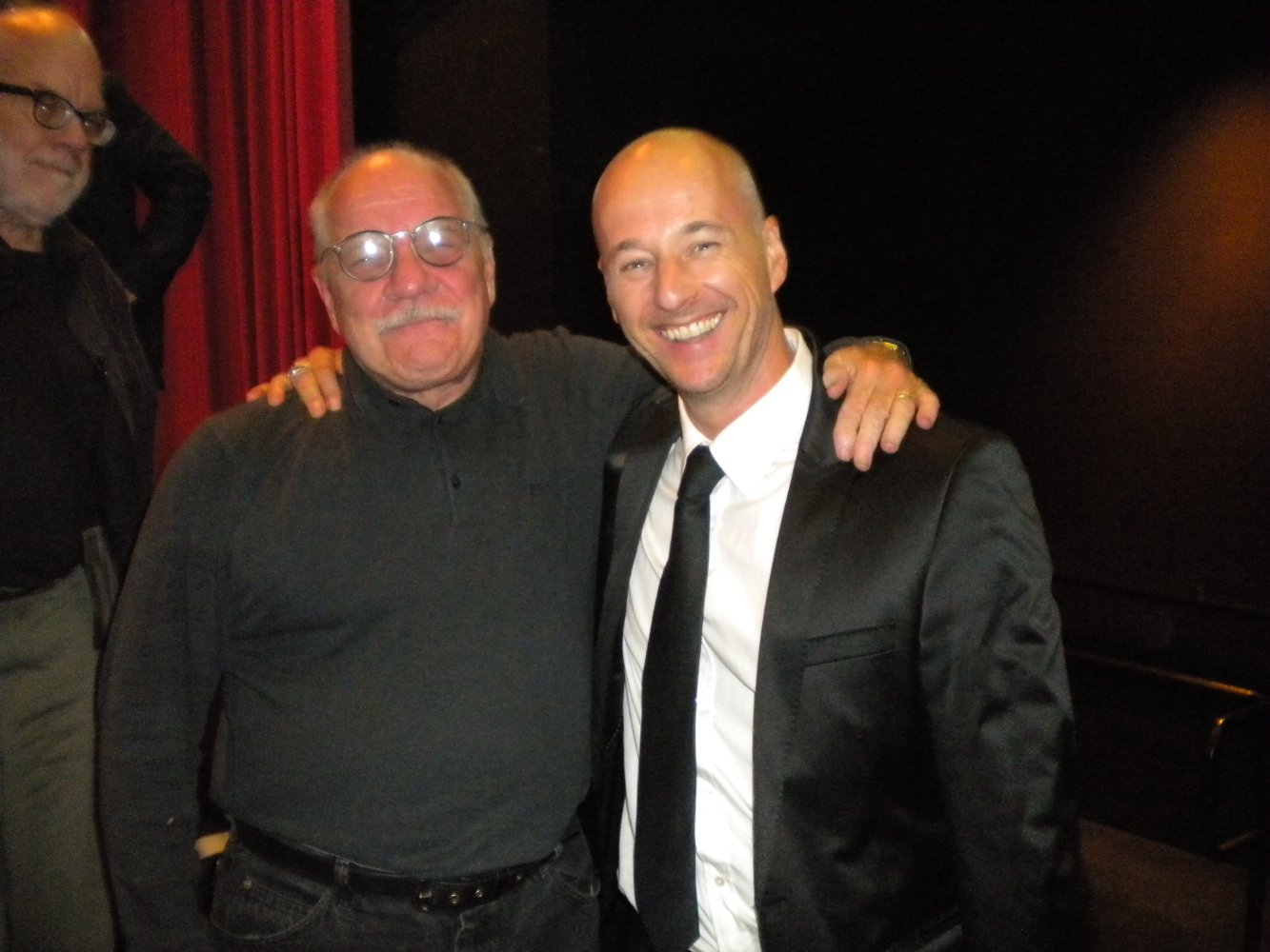 Jim Boeven (right) at The Canyons premiere with Paul Schrader